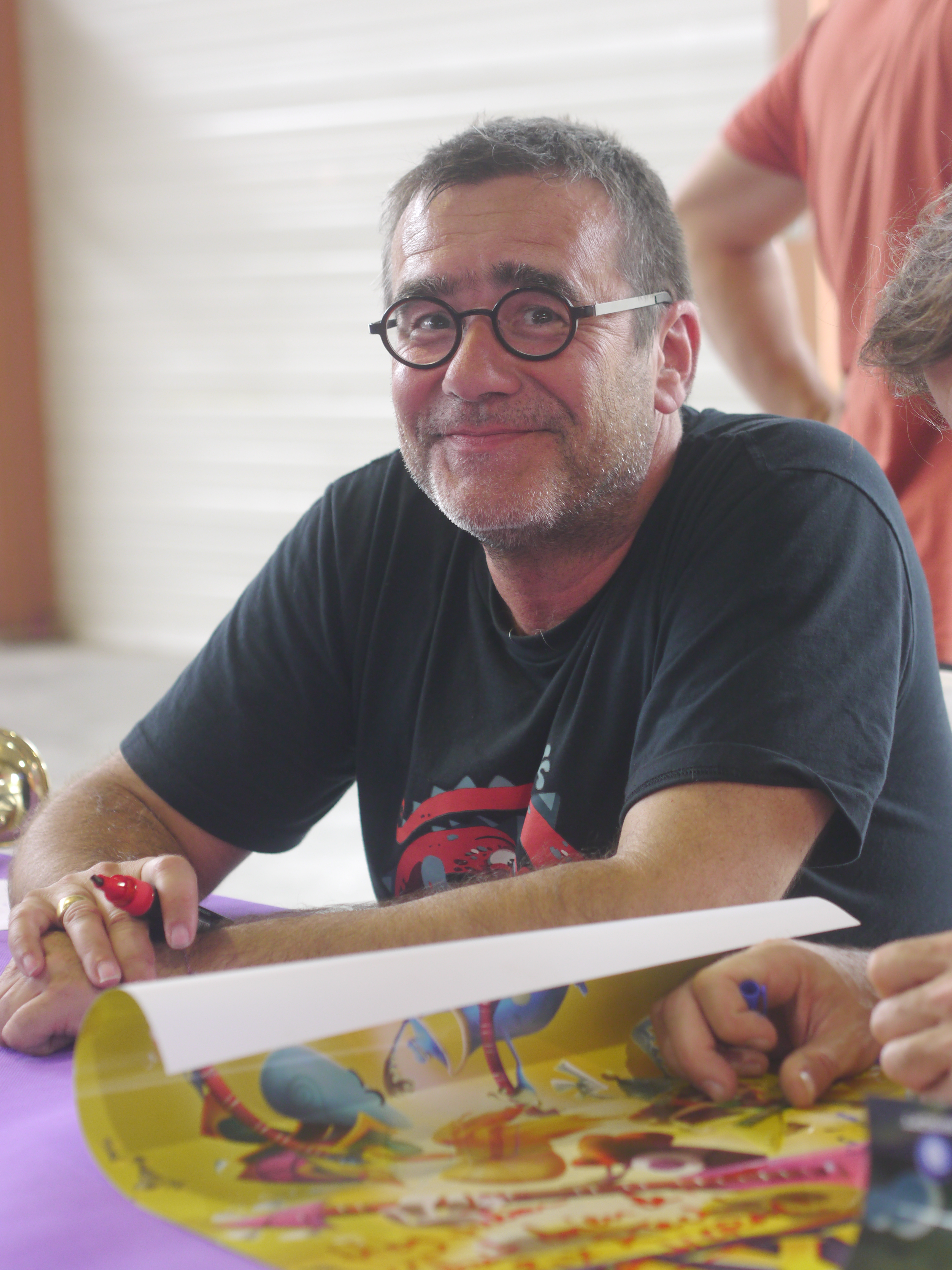 photograph taken at the Pix and Tech - Lord of the Geek Festival in Nîmes in France on the 25th of may 2014.